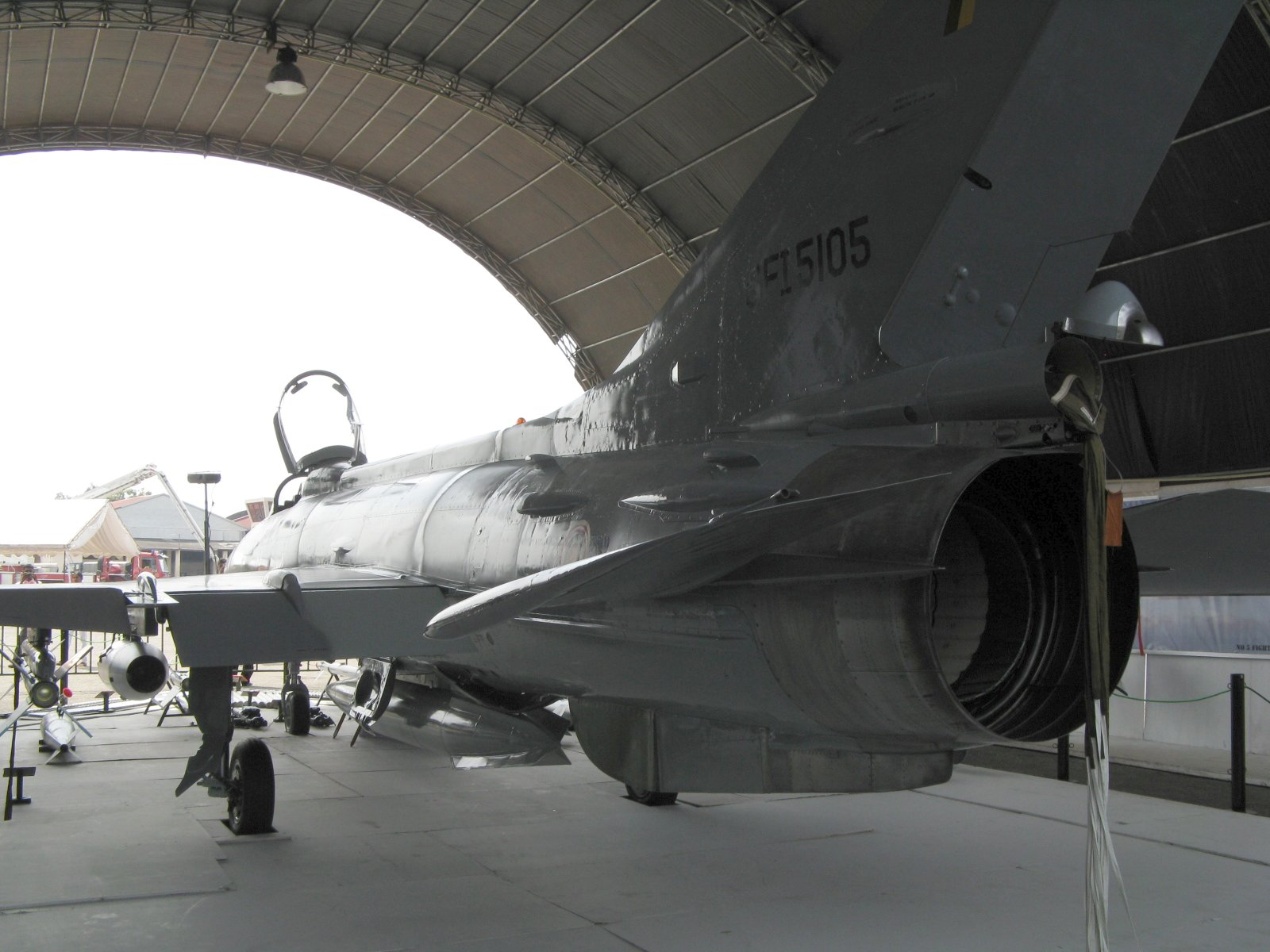 Sri Lanka Air Force Chengdu F-7GS Interceptor Aircraft, export version of the Chinese Chengdu J-7.